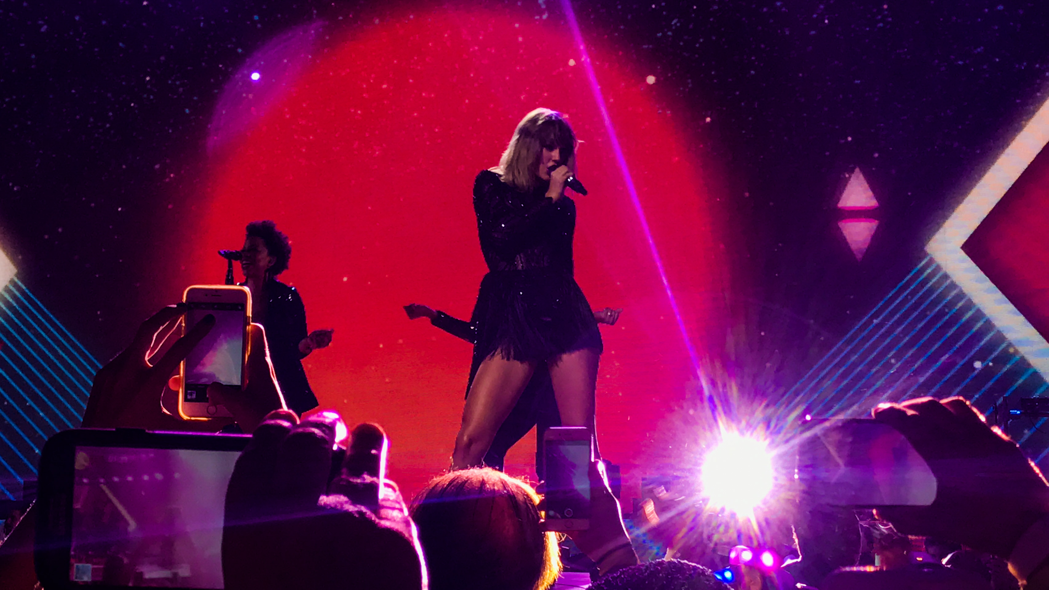 IMG_1746_edited